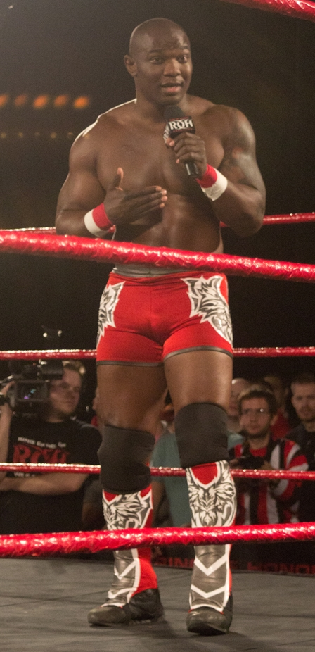 Shelton Benjamin in 2013